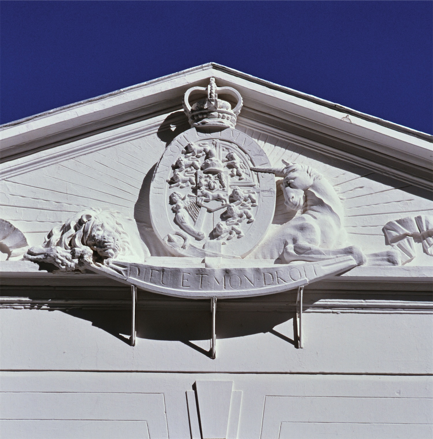 This media shows a South African Protected Site with SAHRA file reference 0000000000.